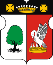 Veshnyaki (municipality in Moscow), coat of arms